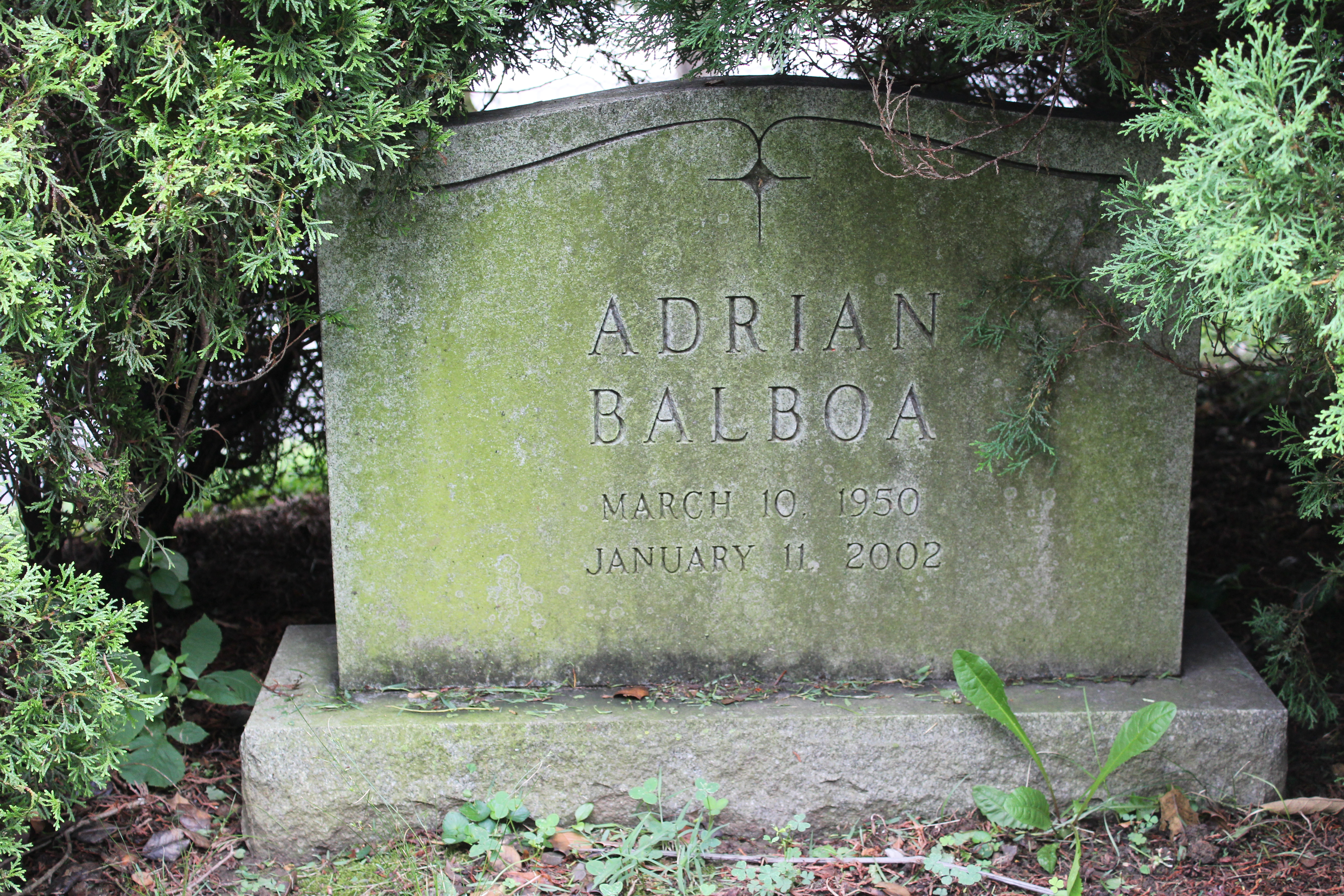 Headstone of fictional character Adrian Balboa in Laurel Hill Cemetery. Photo taken July 2020.